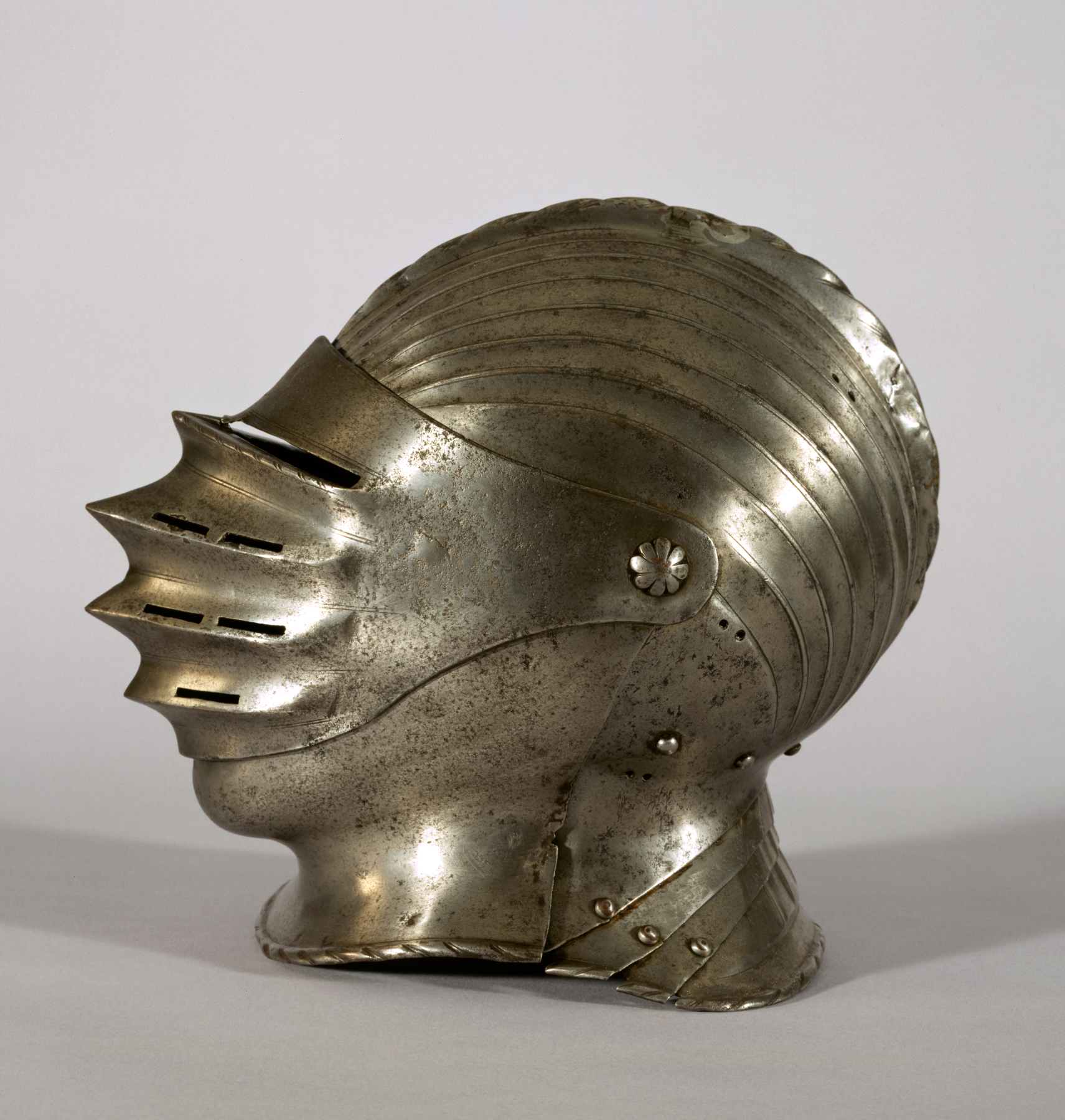 A close helmet encloses the head (as opposed to a sallet). This type combines the rounded Italian shape with the crisp, vertical fluting, crest, and corded borders that evolved from German late-medieval armor. The fluting deflected projectiles and made the plate stronger without adding weight. At 5 lb. 11.7 oz., this piece is not heavy for a close helmet. The style is associated with Emperor Maximilian I (reigned 1493-1519), Archduke Albert's famous ancestor, who was keenly interested in improving armor technology.